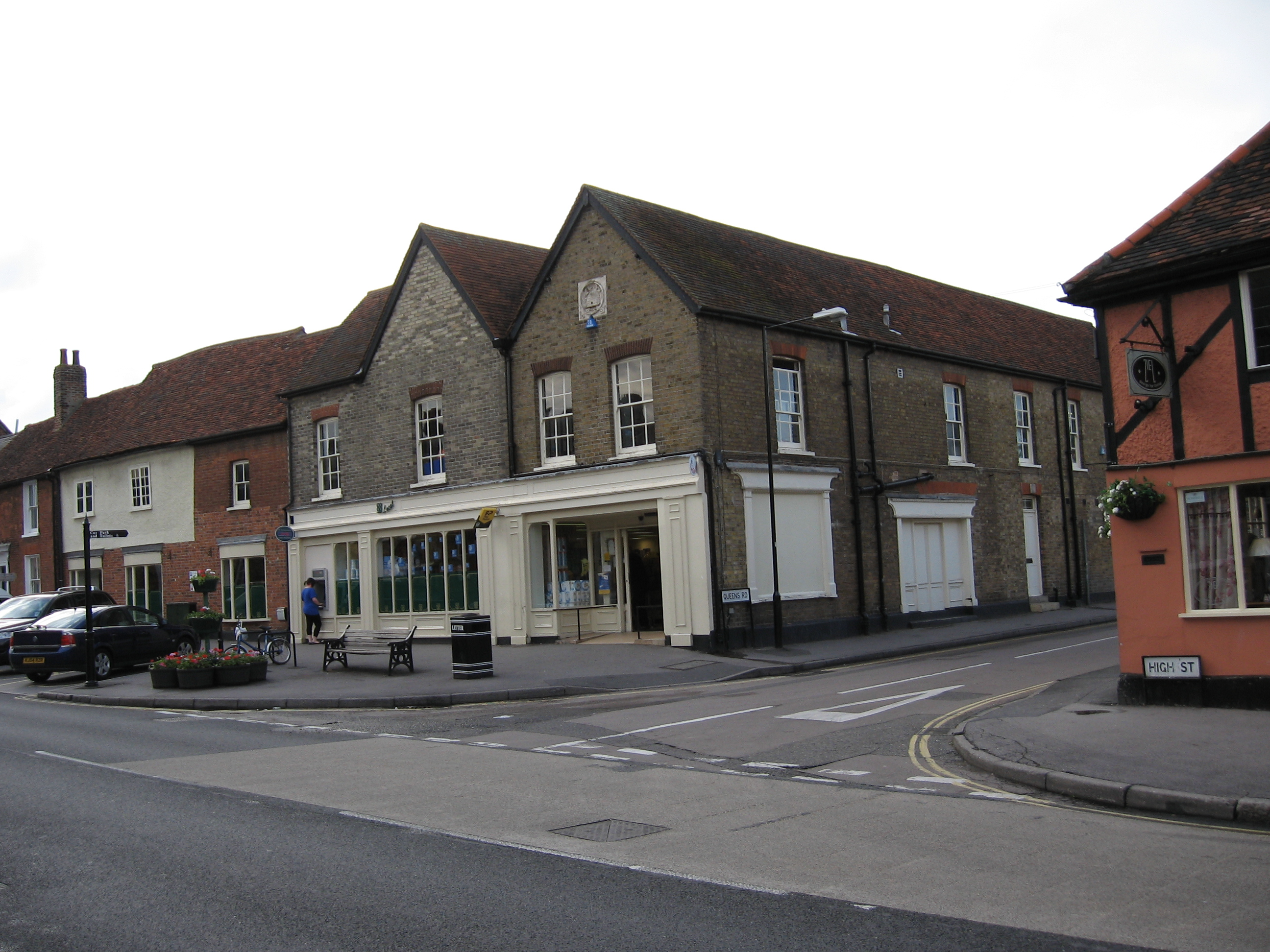 Earls Colne (UK) Coop Building